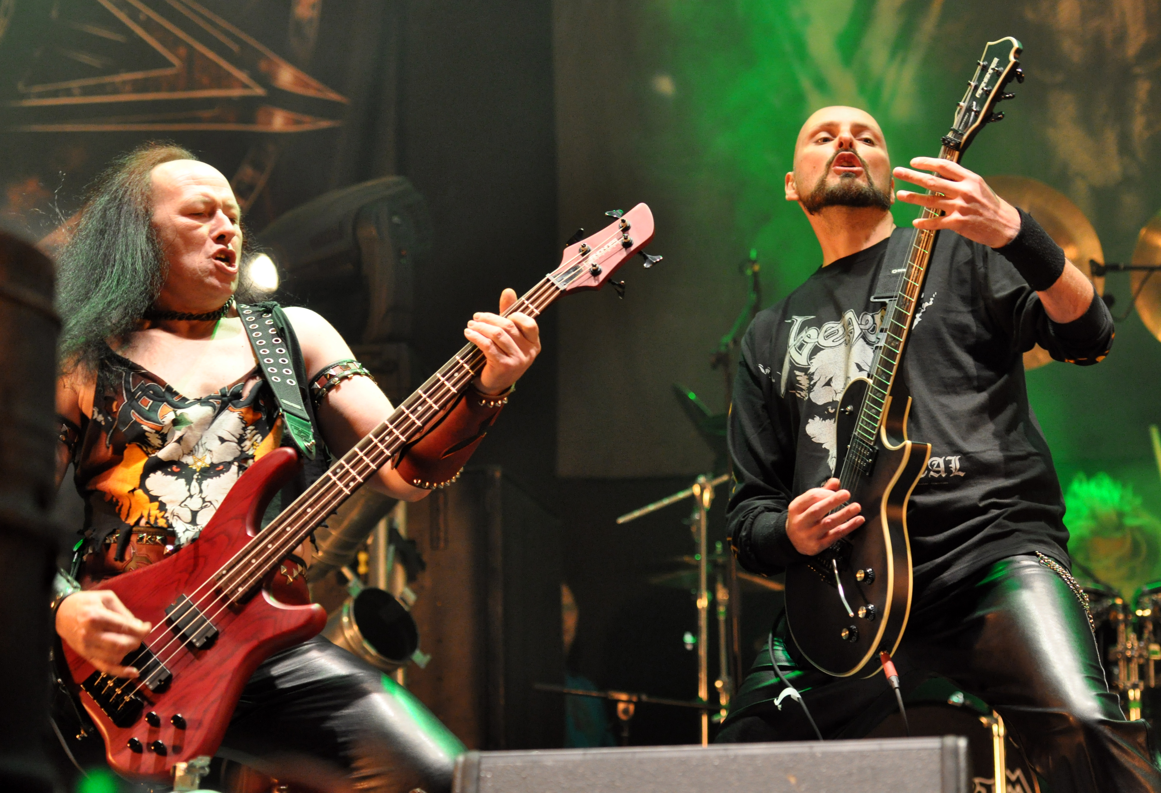 Venom at Party.San Metal Open Air 2013